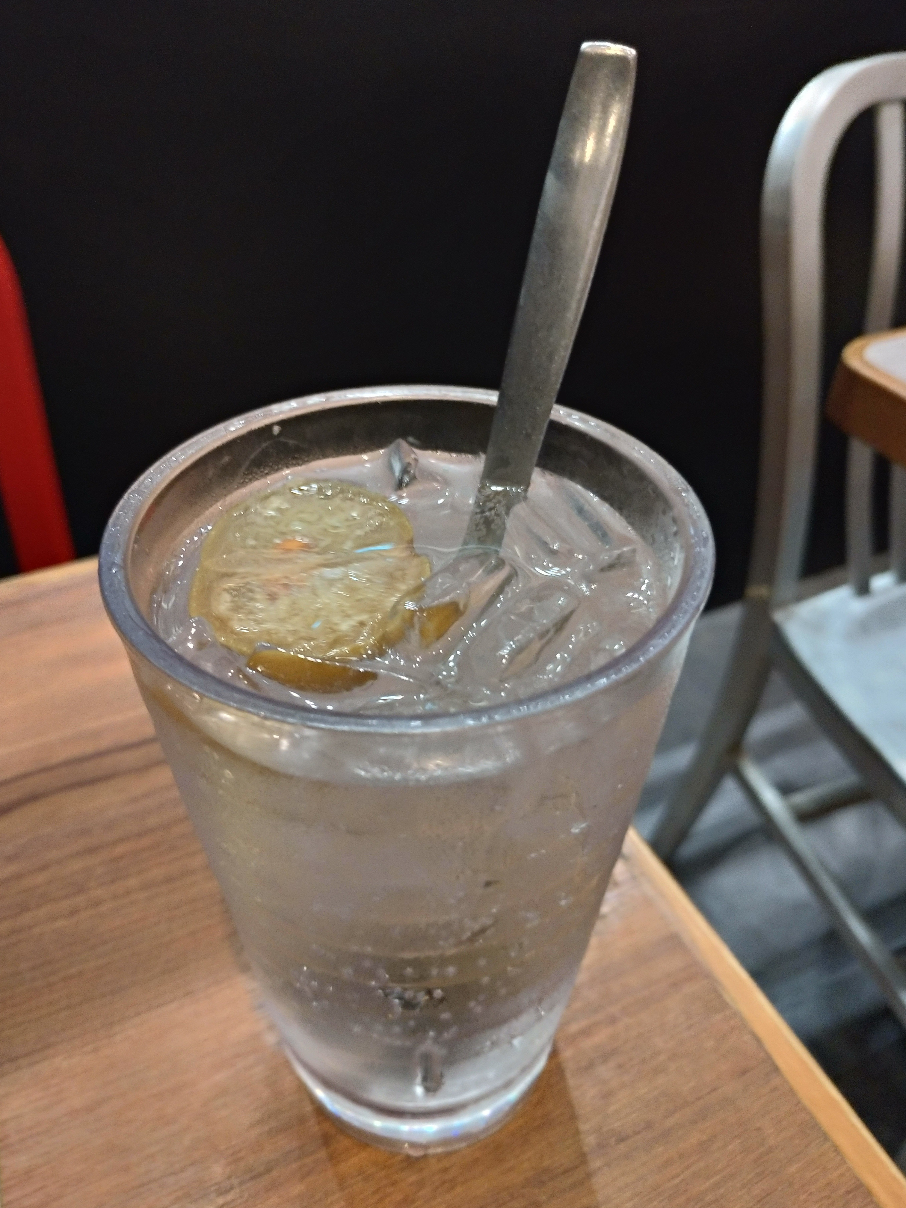 A glass of salted lemon 7 up at a fast food restaurant in HK.